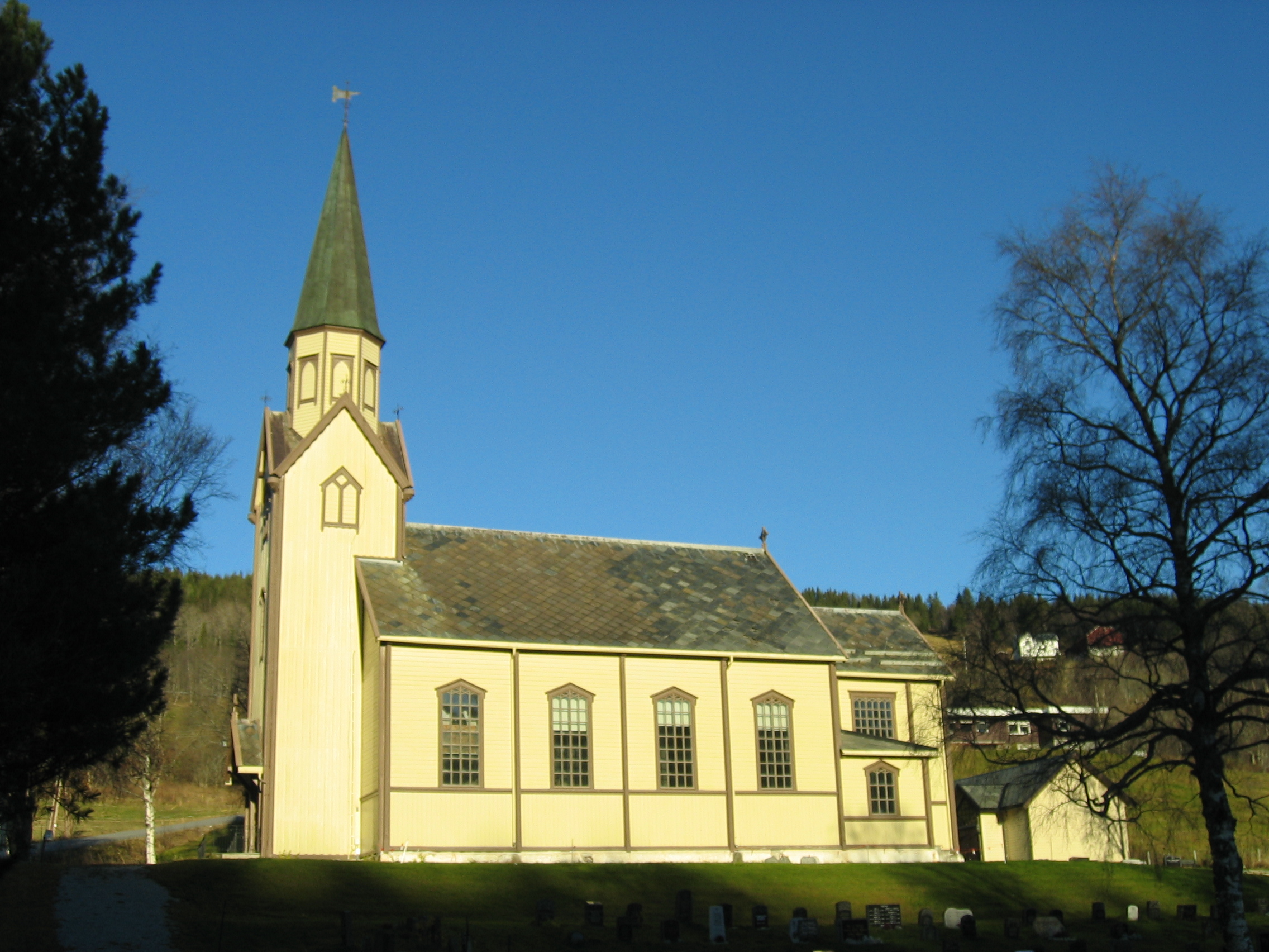 Haltdalen Church, Holtålen, Sør-Trøndelag, Norway. Norwegian: Haltdalen kyrkje, Holtålen, Sør-Trøndelag, Noreg.